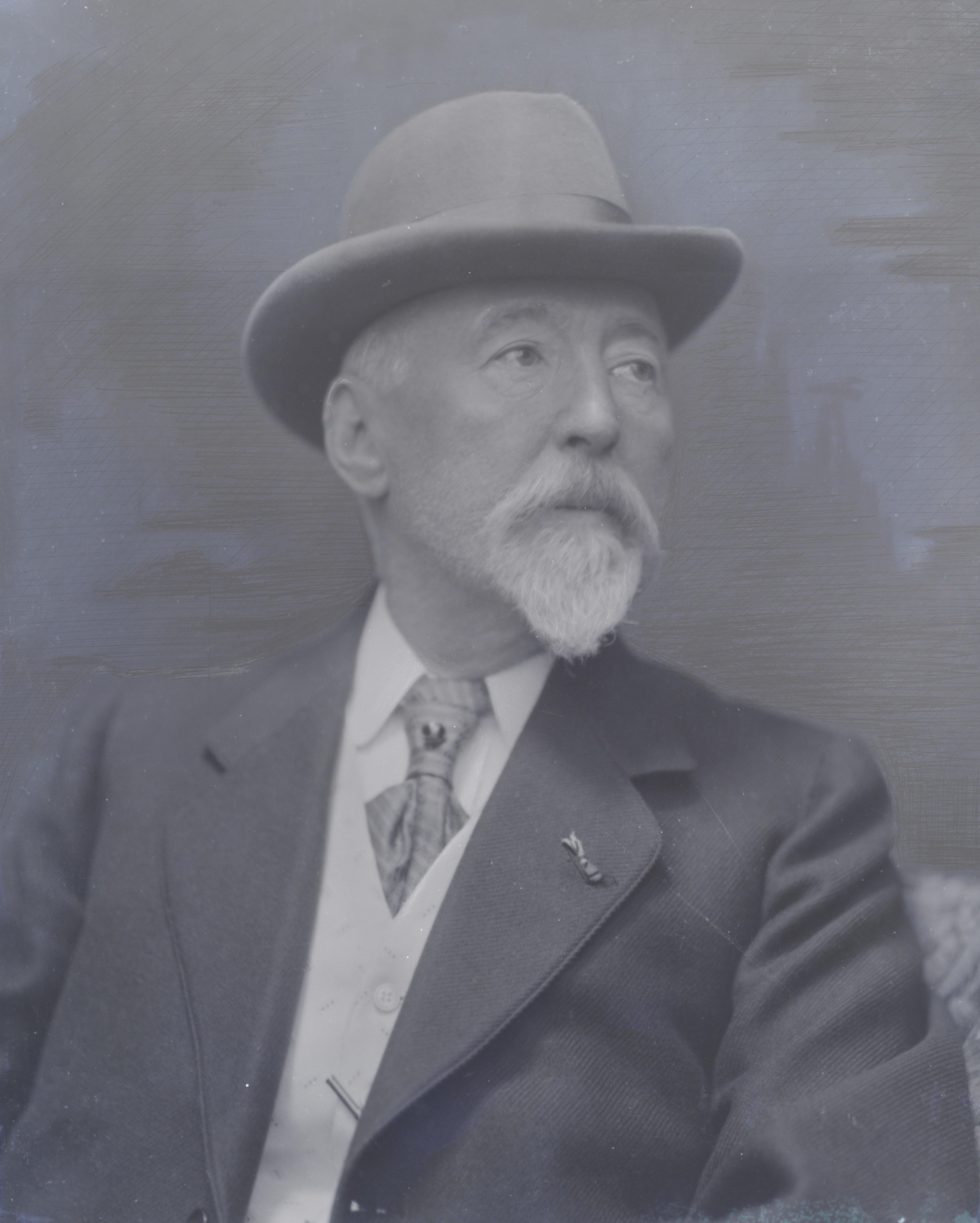 Photograph of Bart van Hove by Jacob Merkelbach (1877-1942)